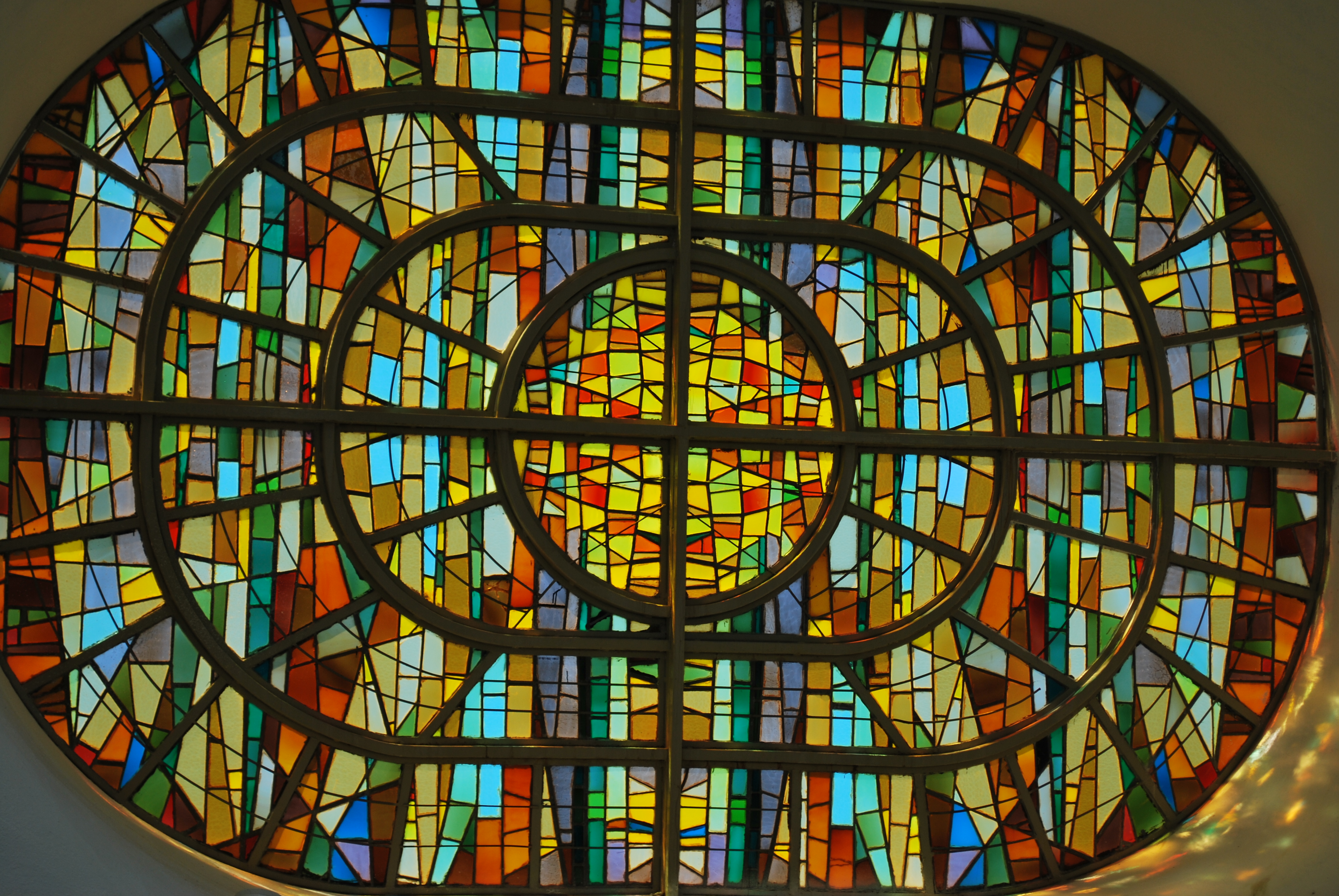 Modern stained glass window — in the Makedonium in Kruševo, Macedonia